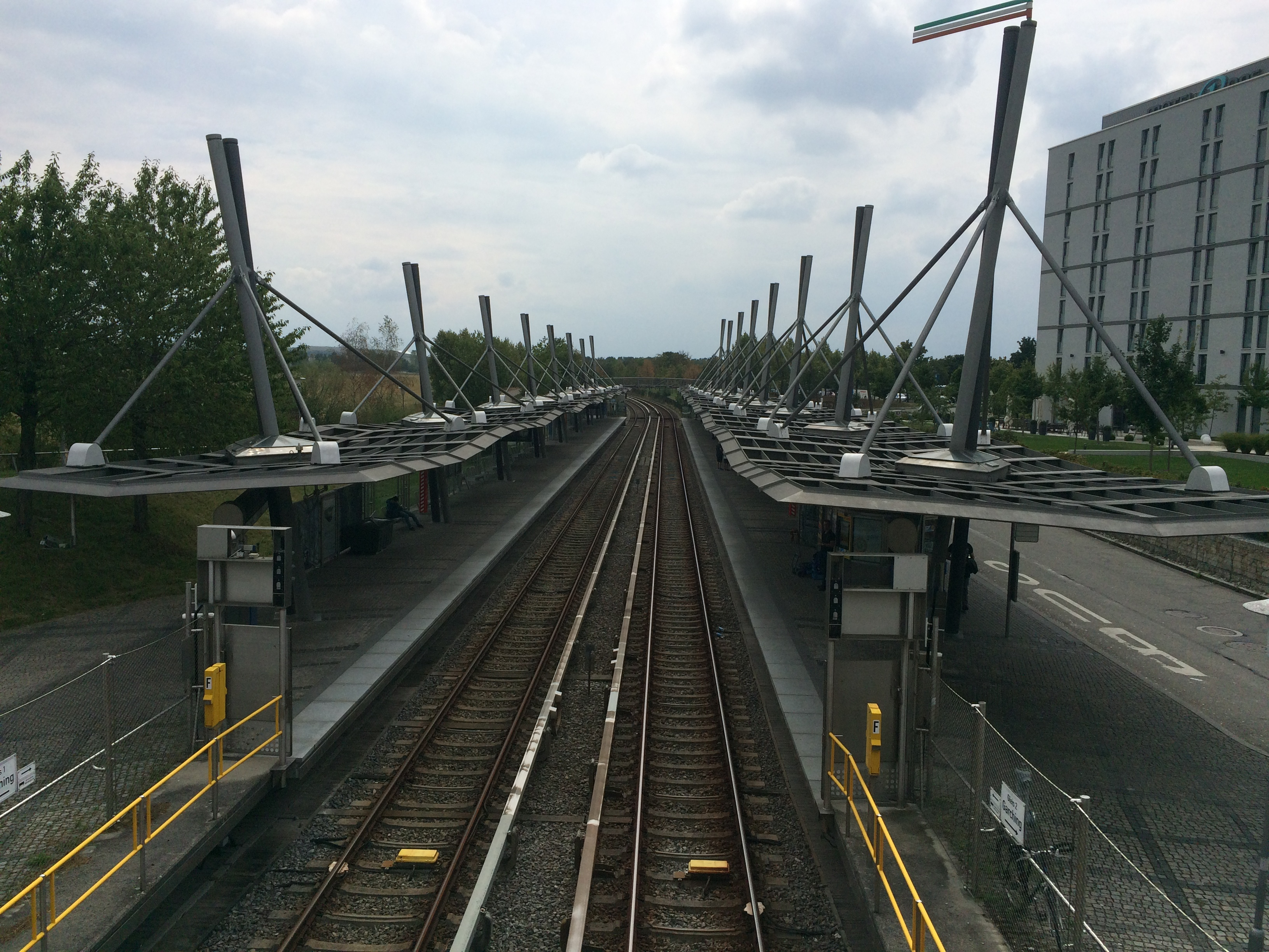 Subway stop Garching-Hochbrück (U-Bahn München) photographed from north of the station